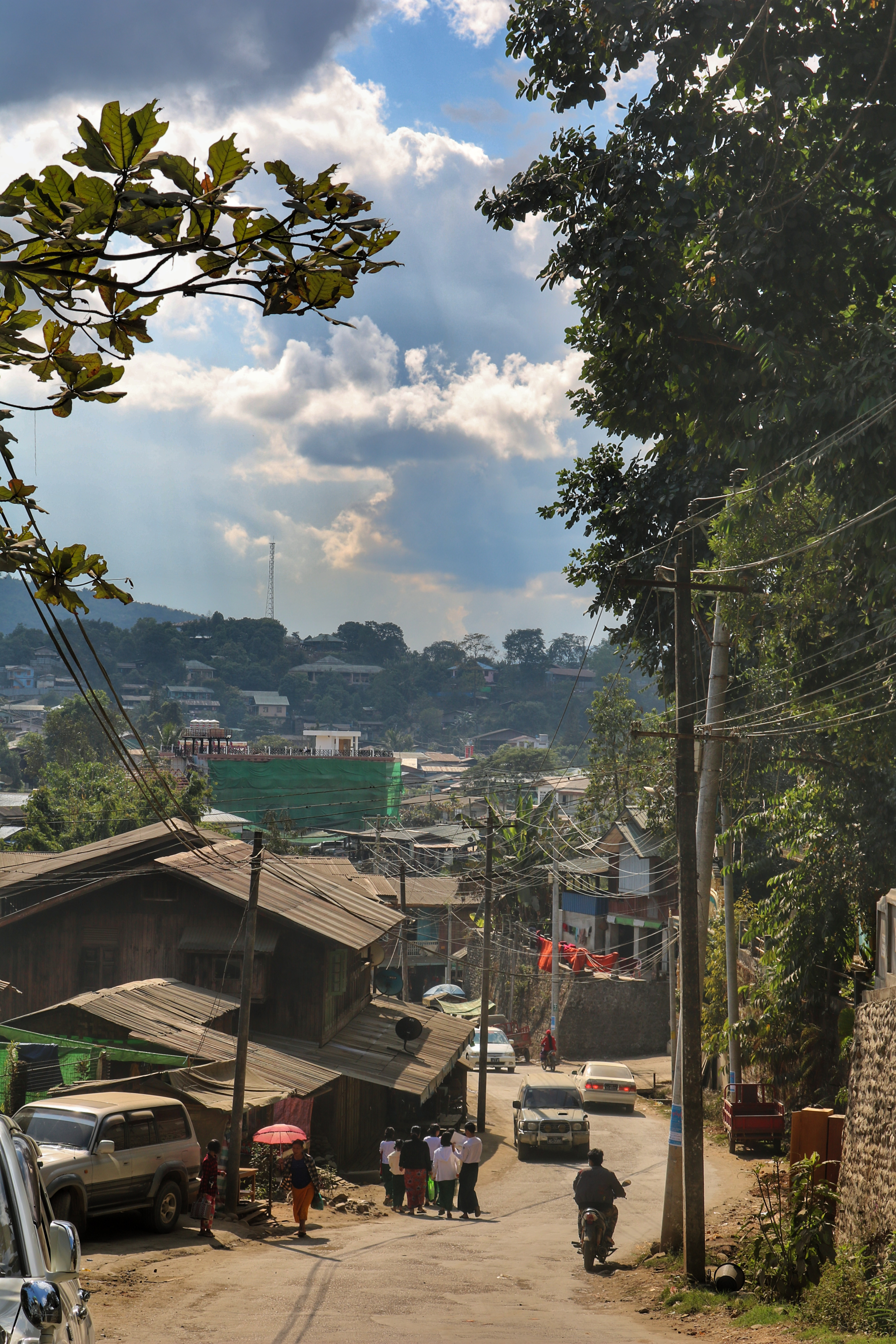 Town centre of Hpakant view seen in 2018 January